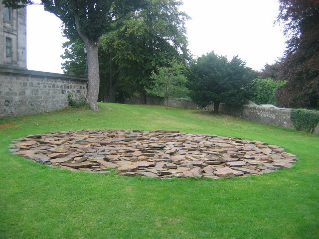 MacDuff Circle, Dean Gallery. MacDuff Circle, by Richard Long in the grounds of the Dean Gallery (Nathonal Galleries of Scotland)